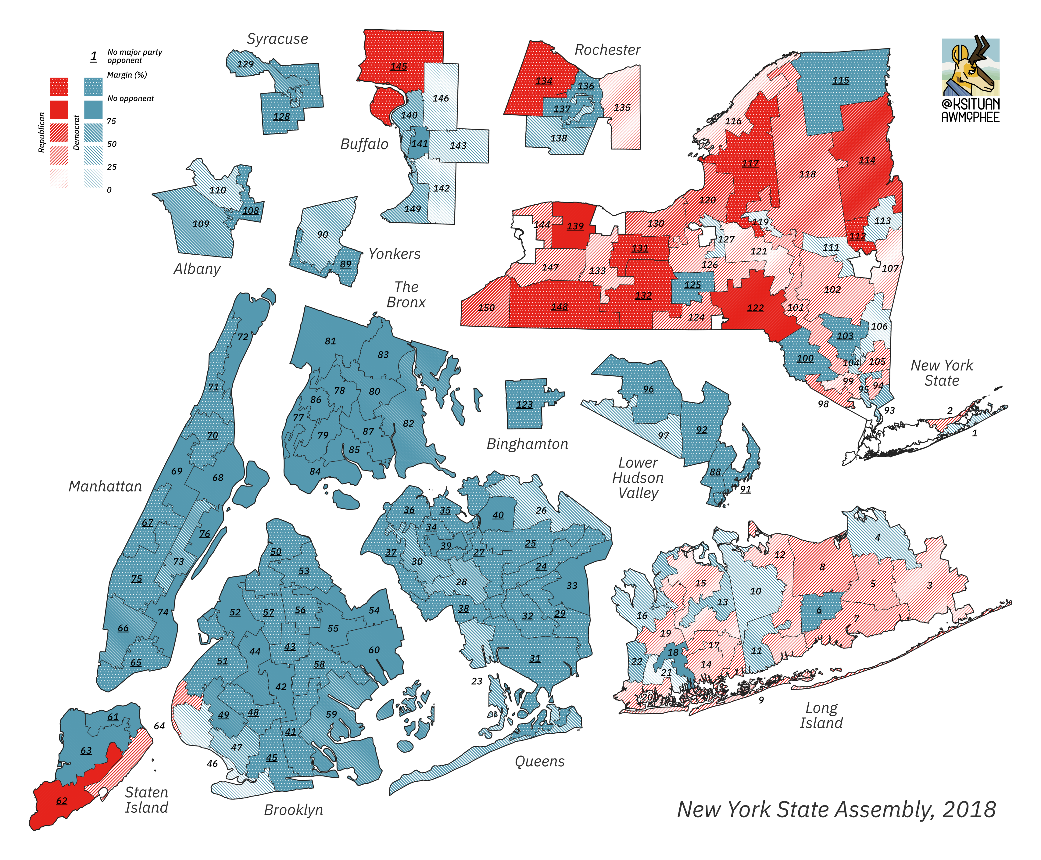 A series of state legislative election maps, created from open data during the summer of 2020. Their common visual style is designed to accomodate all of the unique features of American democracy. They were created using QGIS and Inkscape, two free programs. Please use freely and contact the author with any inquiries about visualizing election data with open-source tools.